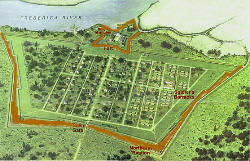 Plan Fort Frederica National Monument (Georgia)